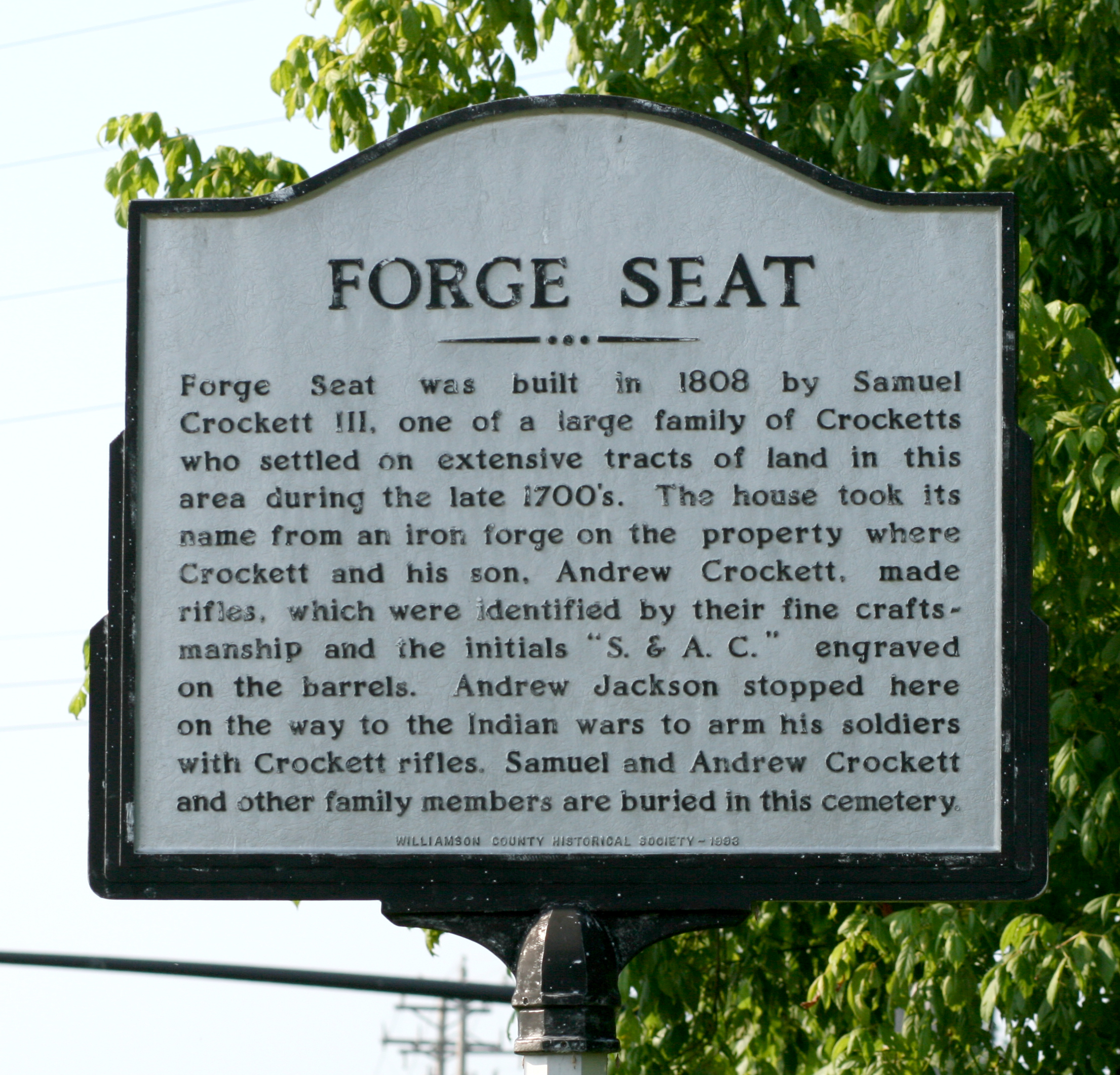 Williamson County Historic Commission marker for Samuel Crocket house, known as Forge Seat